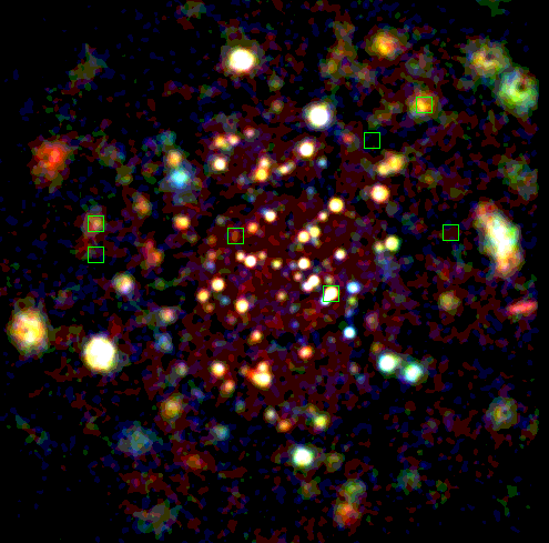 The Pleiades in X-rays, taken by ROSAT. The brightest objects in X-rays have the hottest coronas. The green squares mark the positions of the seven optically brightest stars. From [1].